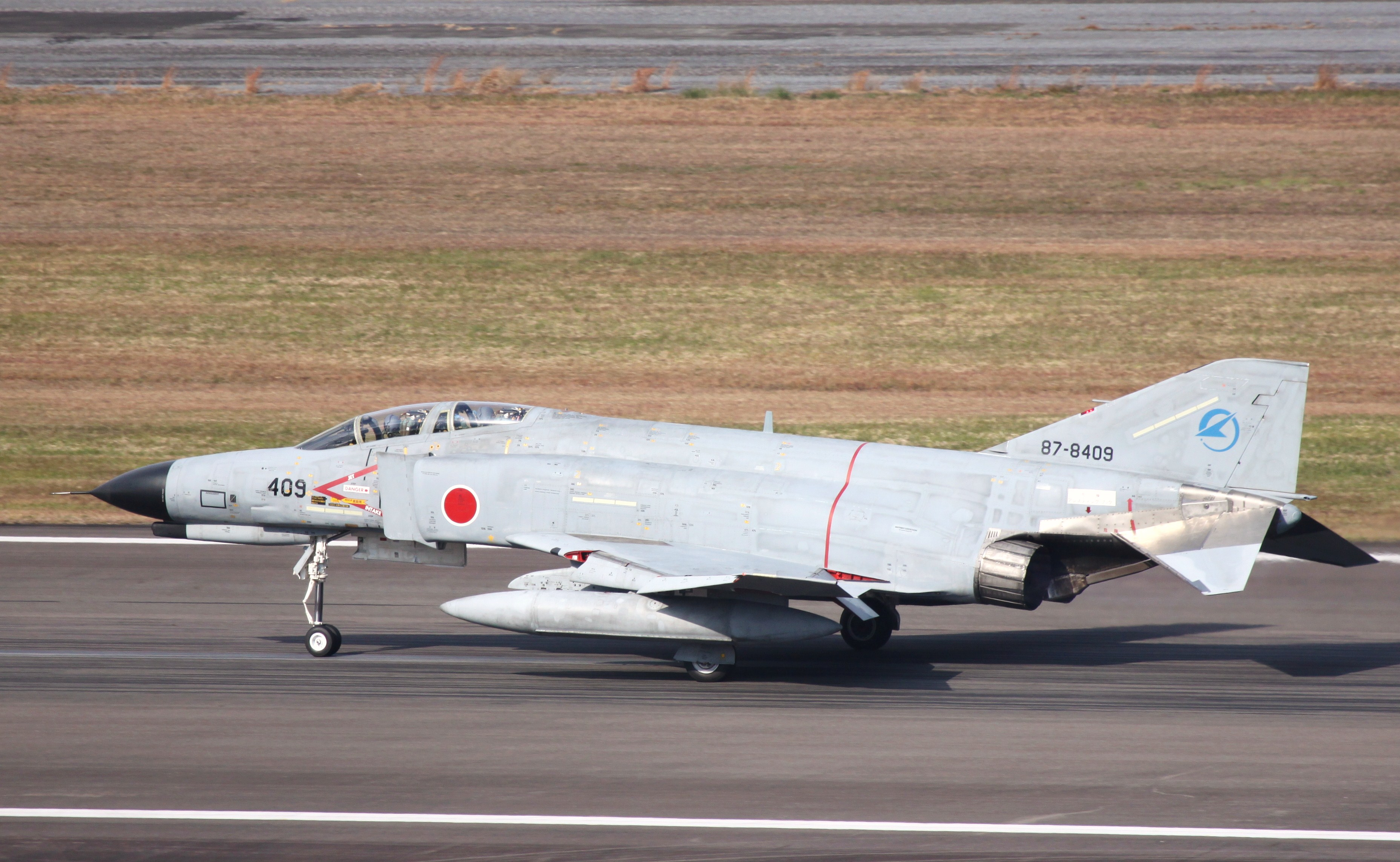 To see on to the base involves a hike up a nearby hill. Worth the effort though.